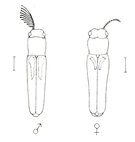 An adult male and female of jewel beetle Xenorhipis brendeli (Coleoptera: Buprestidae).